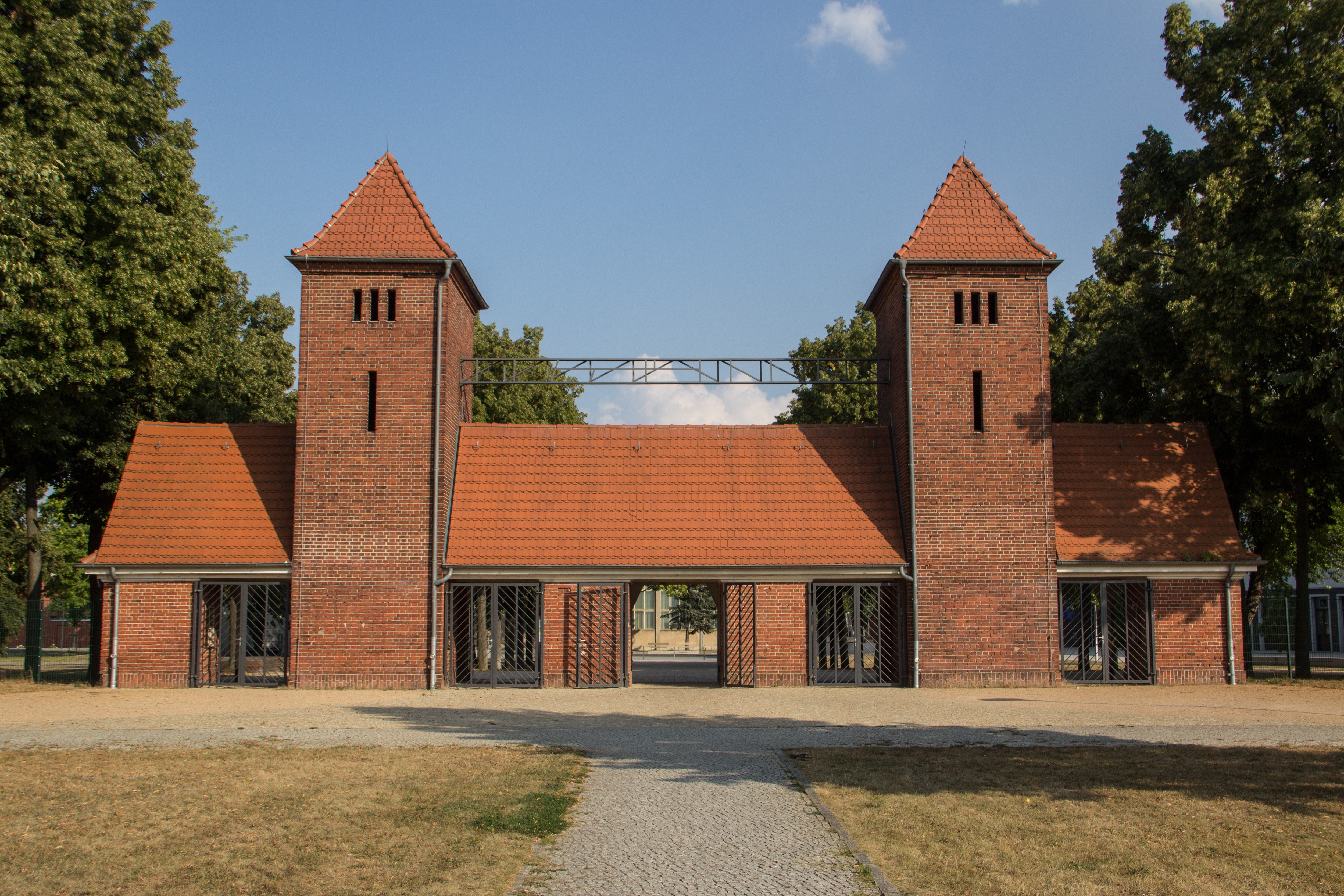 Entrance to Luftschiffhafen Potsdam